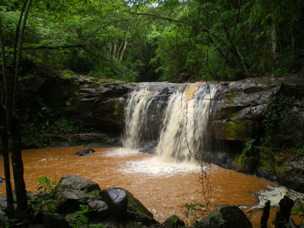 a little fall